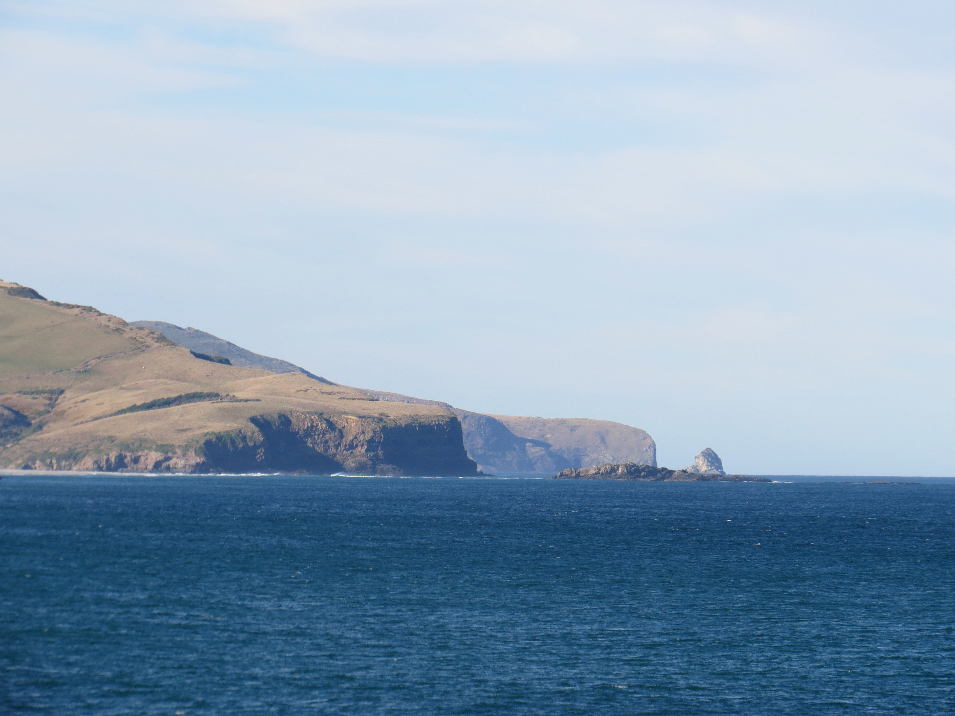 Otago Peninsula headlands (left to right: Lawyers Head, Maori Head, and Harakeke Point) and coastal islands (the long, low form of Bird Island and the stack of Lion's Head Rock) seen from Second Beach, St Clair, Dunedin